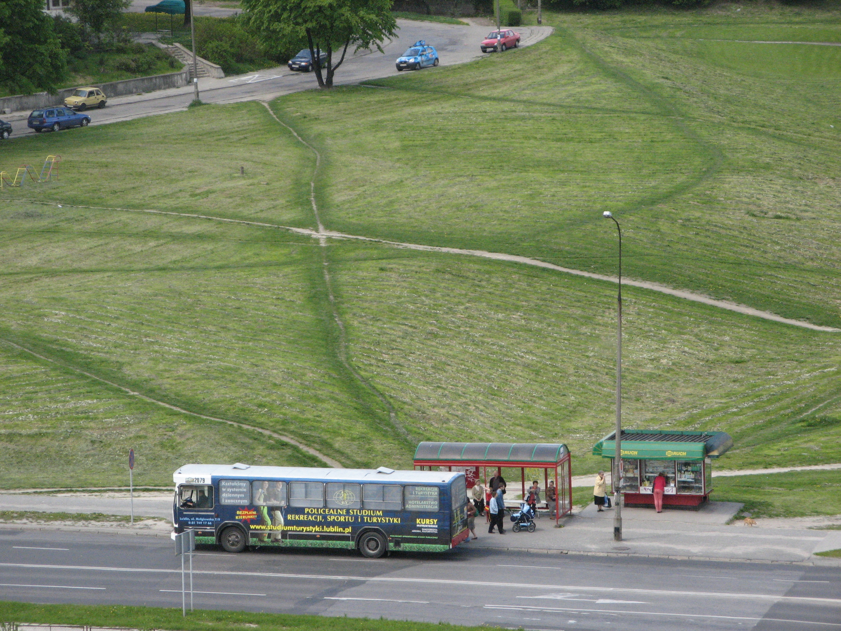 Jelcz M11 bus (#2079) in Lublin, Poland. Built 1988, MPK Lublin operator.